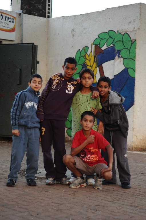 Children in "The House For Science & Standpoint" in Akko ("HaBait LeMada Ve'Emda") - part of the Isarely Working and Studying Youth Movement ("HaNoar HaOved VeHaLomed")